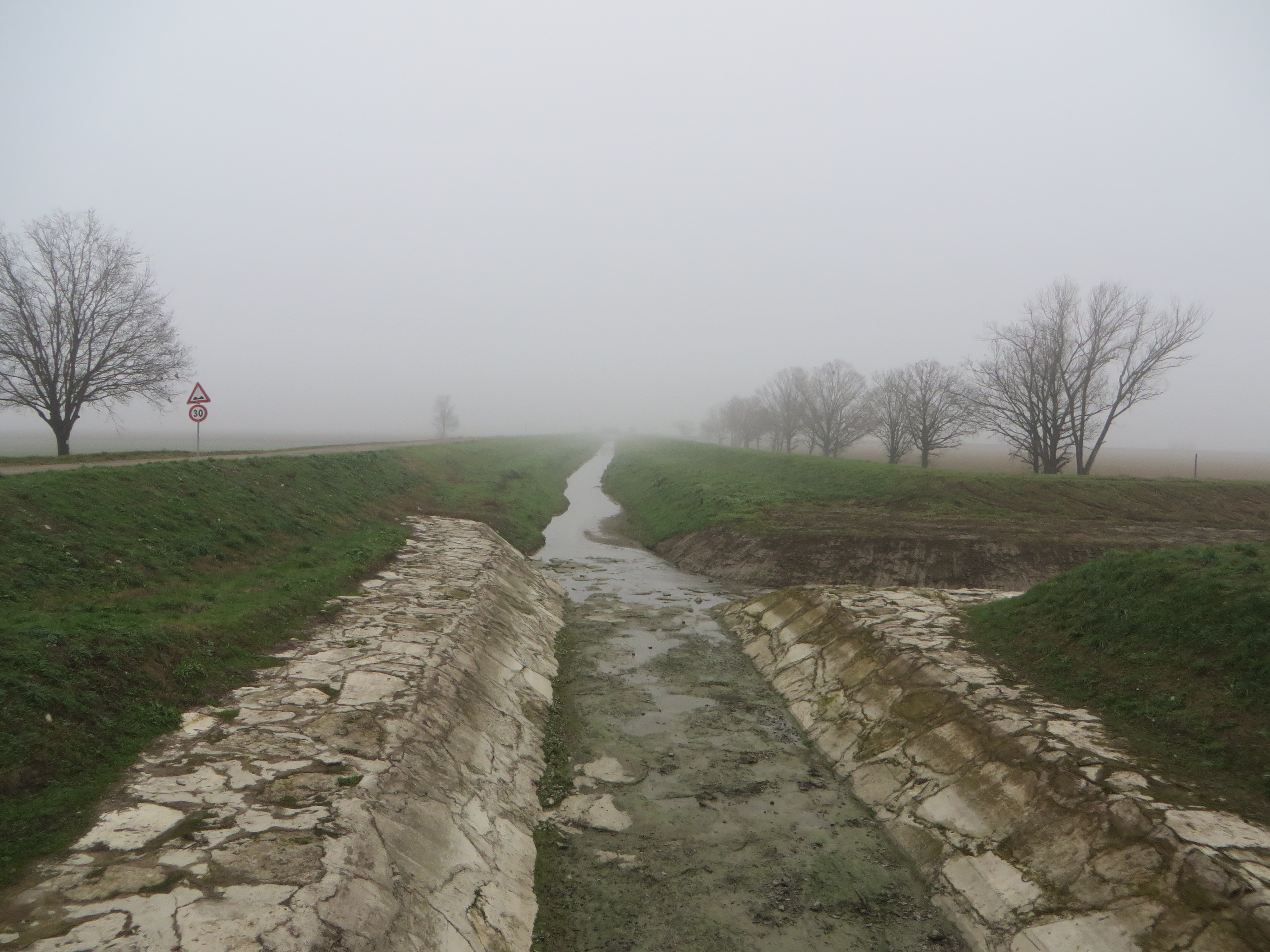 Rigosa canal